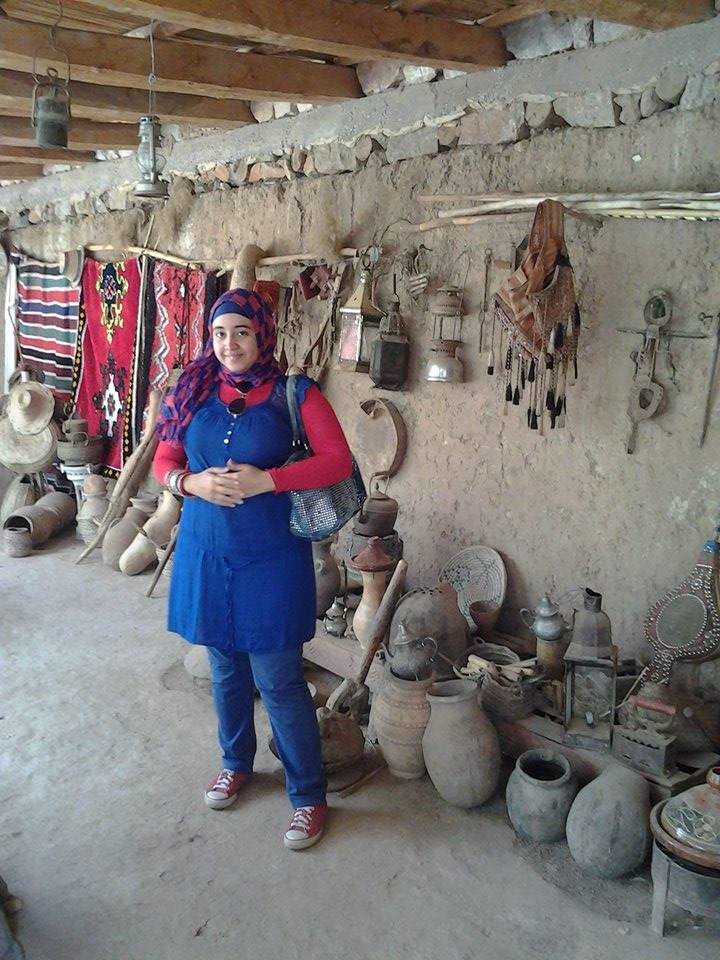 This is an image from Morocco